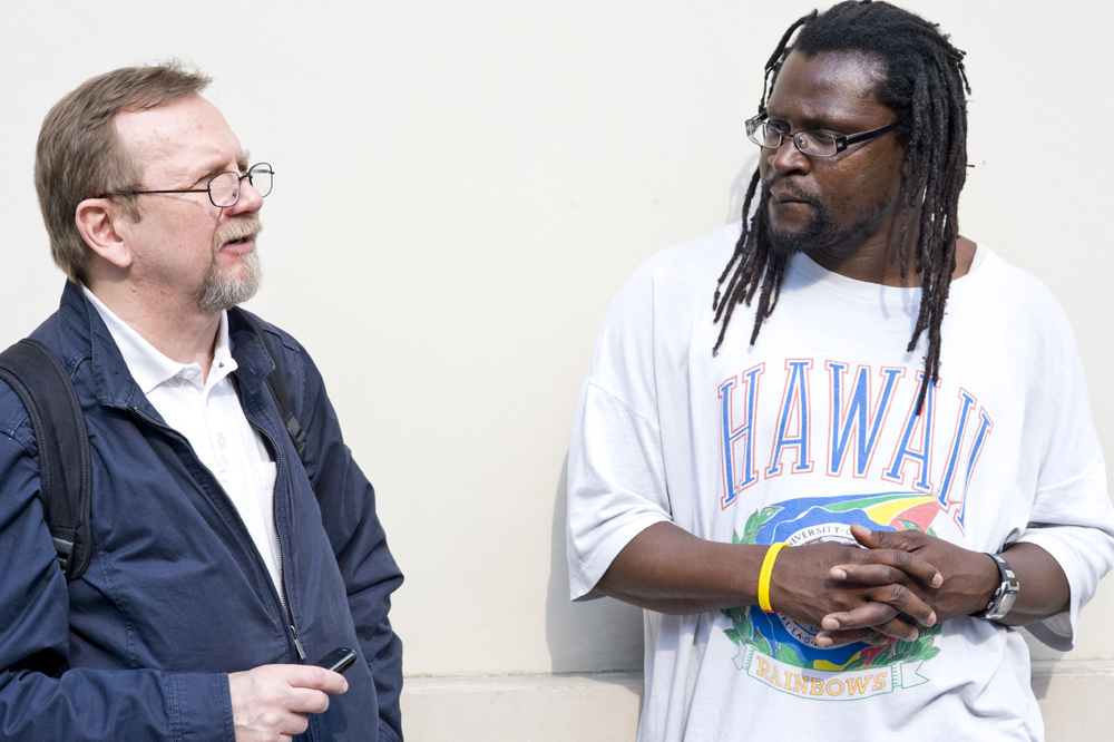 Mamadou Diouf (right) in conversation with Włodzimierz Kleszcz, world music radio personality in Poland.